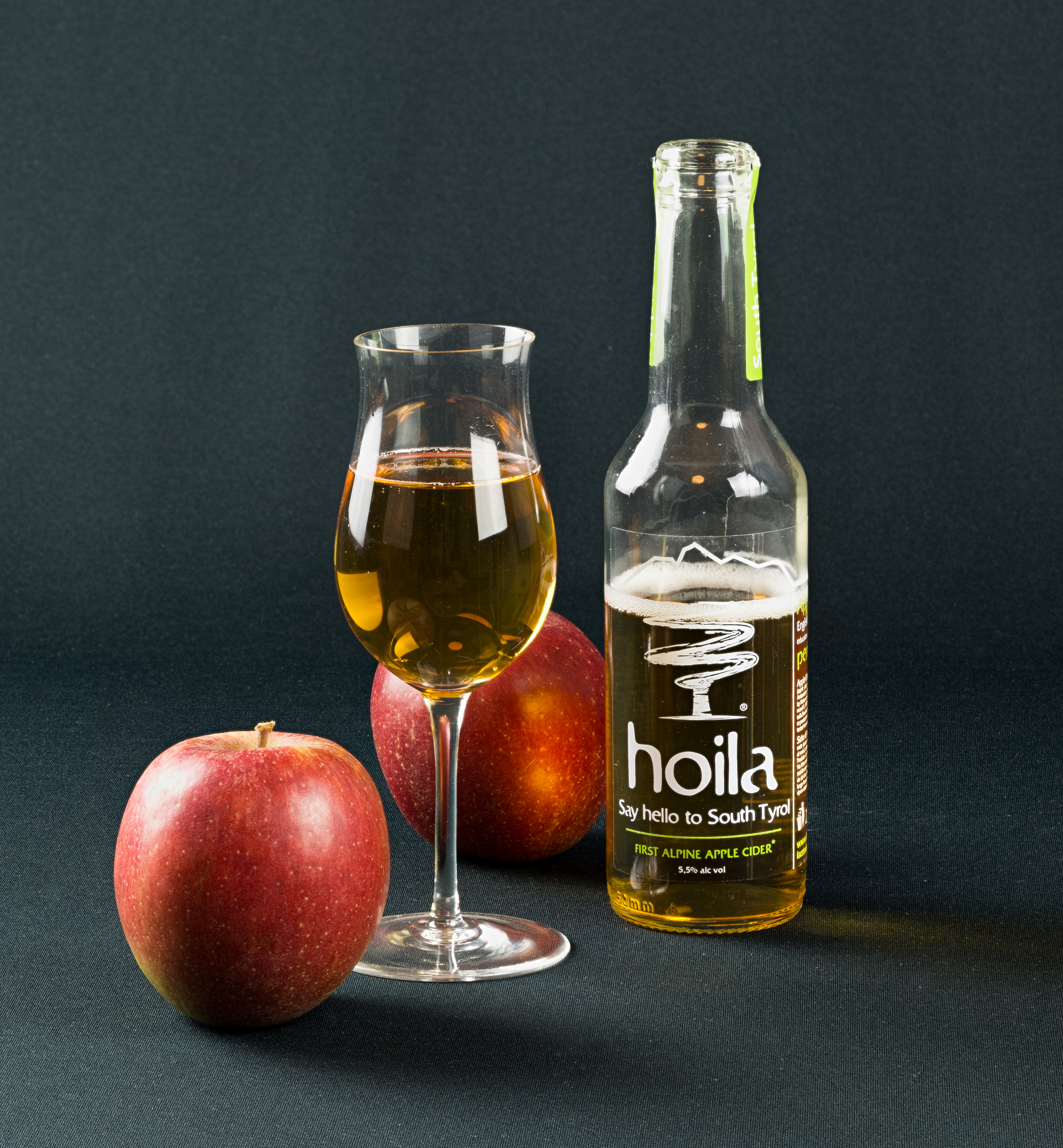 hoila-Cider from Zingerle, Bolzano, South Tyrol, bought at Laurino-Delikatessen, Karmelitermarket, Vienna